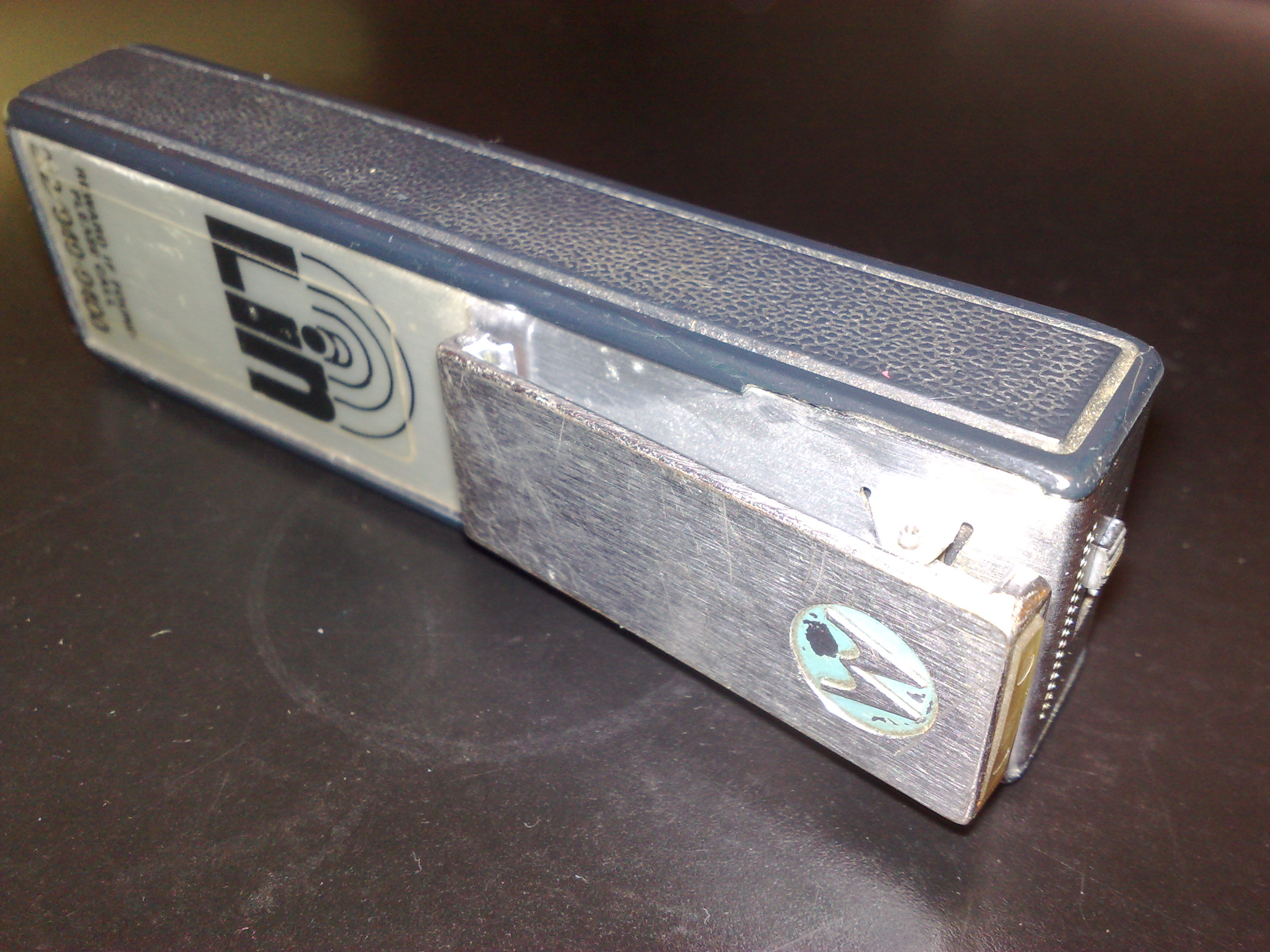 1978 Motorola Radio Beeper/Pager. Used in New York City. No display; when you are paged, it beeped to tell you to call a predetermined phone number.